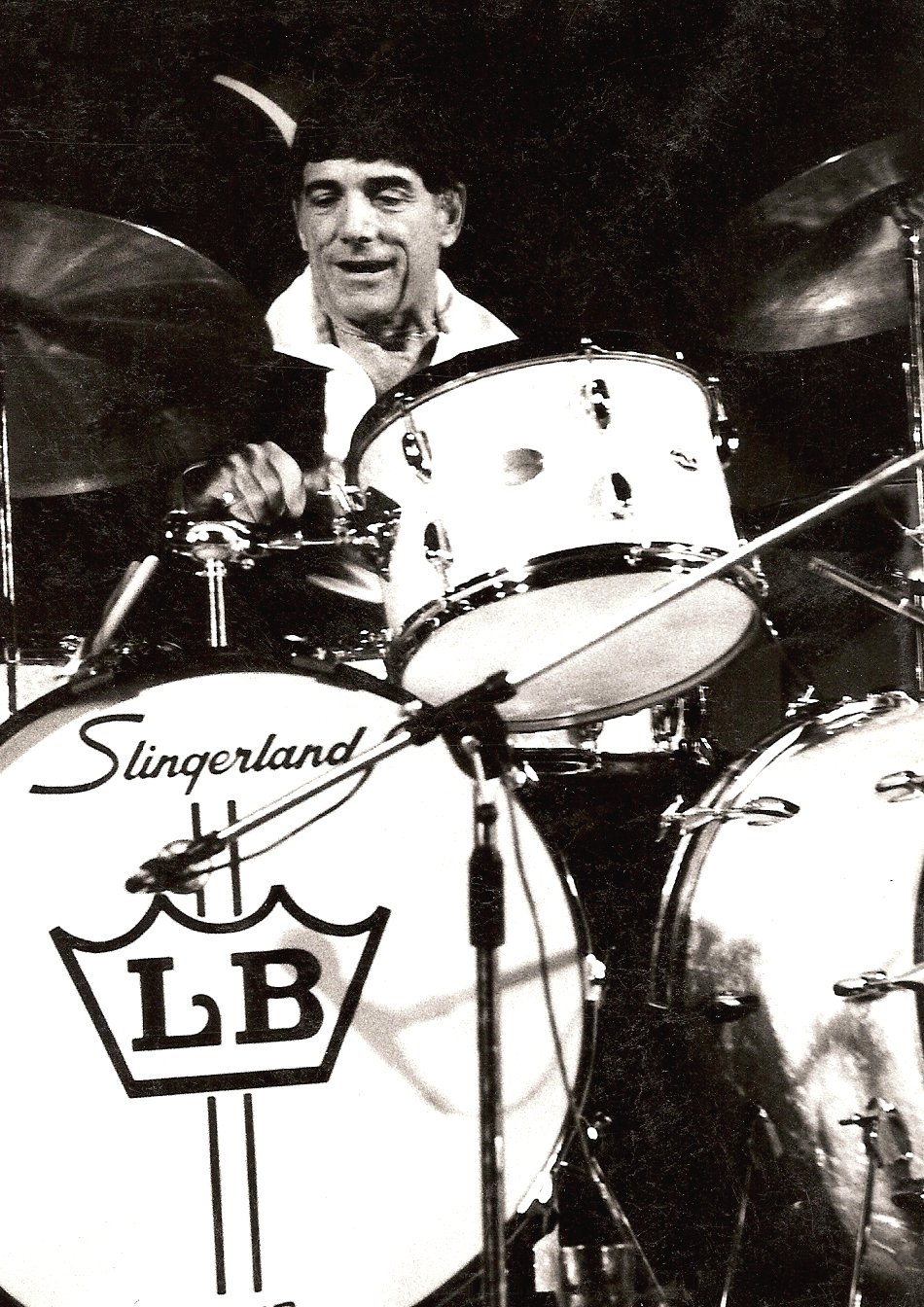 Louie Bellson (Poland, 1980), an American jazz drummer (photographed by Wojciech Soporek)